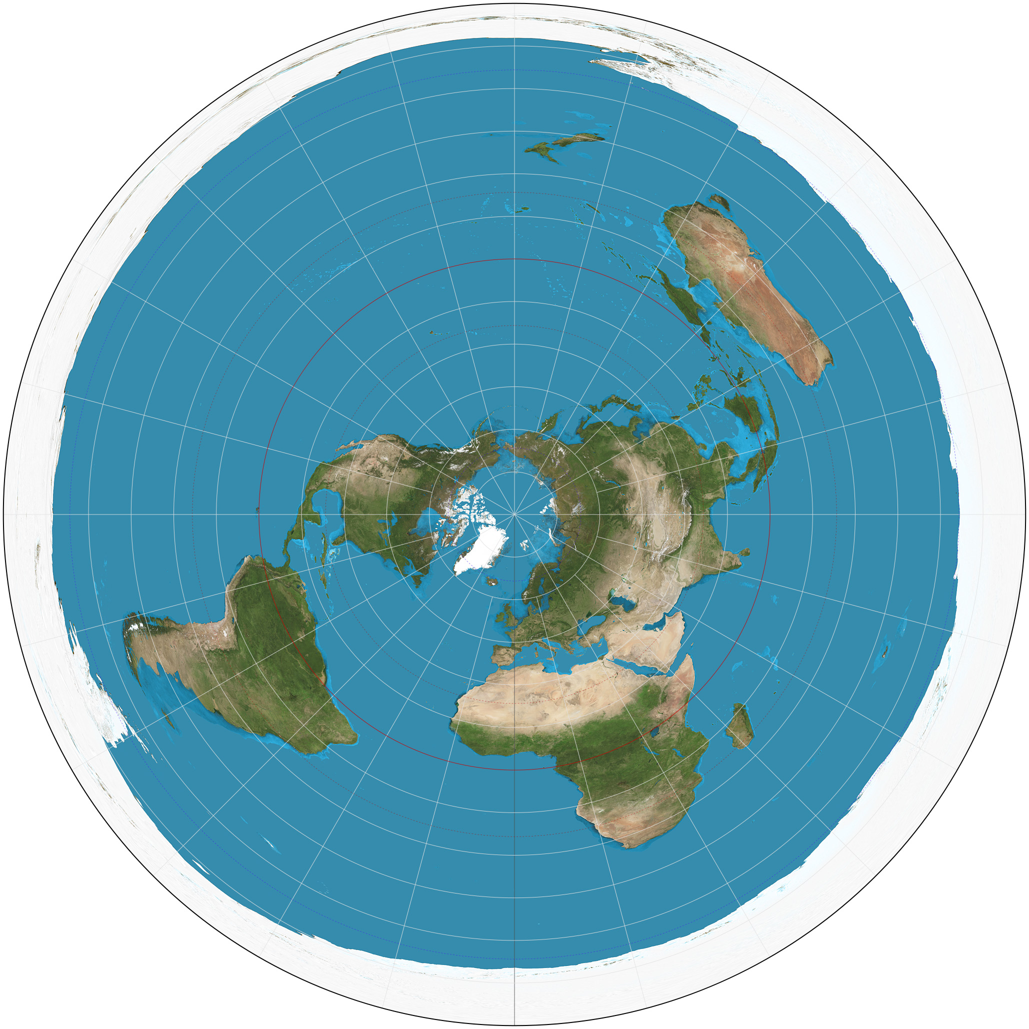 The world on azimuthal equidistant projection. 15° graticule, polar aspect. Imagery is a derivative of NASA’s Blue Marble summer month composite with oceans lightened to enhance legibility and contrast. Image created with the Geocart map projection software.